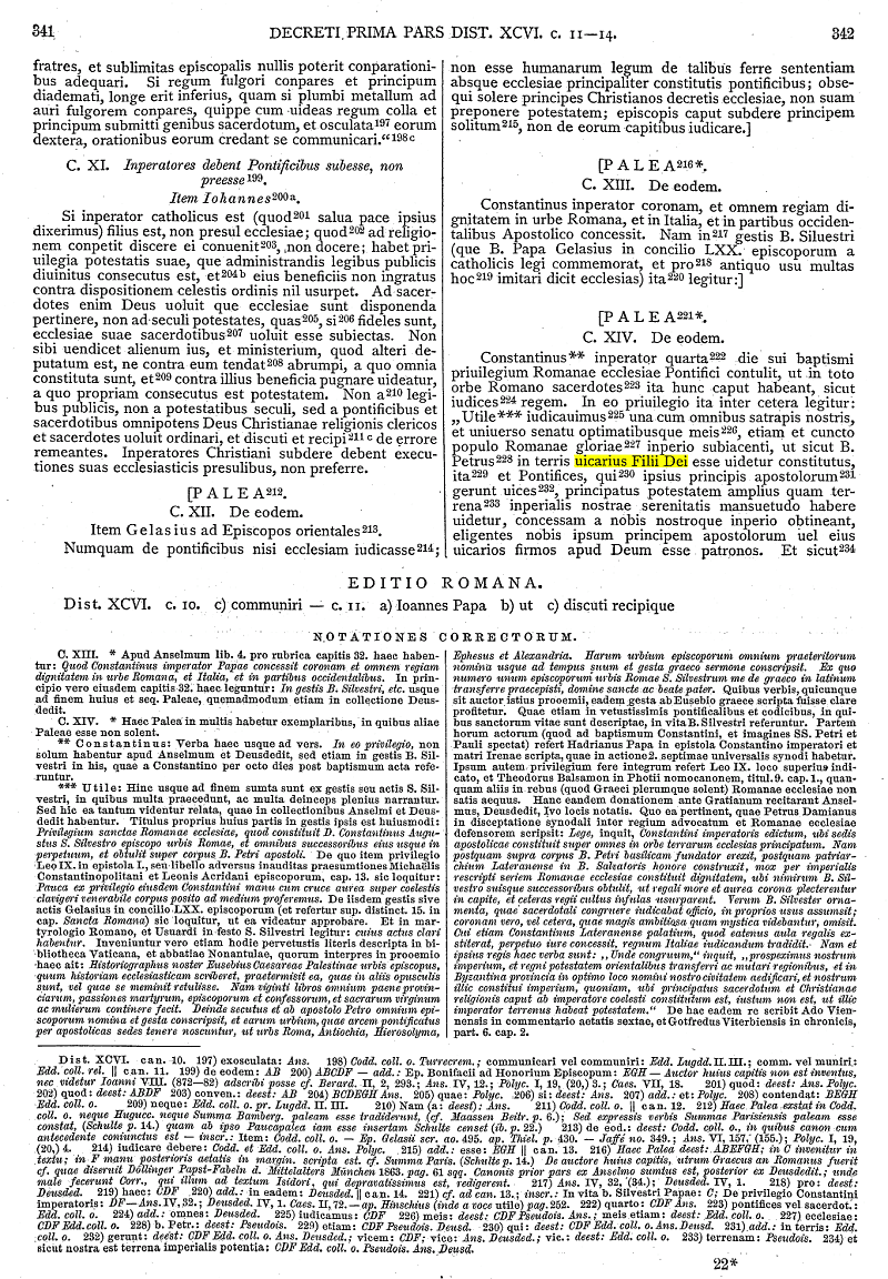 Columns 341 and 342 of 1879 edition of Corpus Iuris Canonici, as available online from the Bavarian State Library ( with "uicarius Filii Dei" highlighted by me.